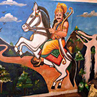 Mazhavar king Valvil Ori